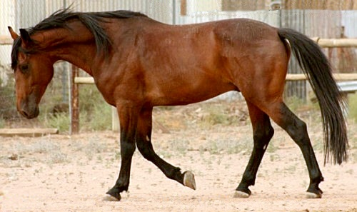 CM Bedford Forrest - a 3/4 Cleveland Bay Stallion by Forest Field Day out of a Billara Padbury mare. Forrest is an example of what was known as the Yorkshire Coach Horse being 3/4 Cleveland Bay. He is a prime example of an athletic yet nicely built Cleveland Bay Sporthorse Stallion suited for all disciplines.